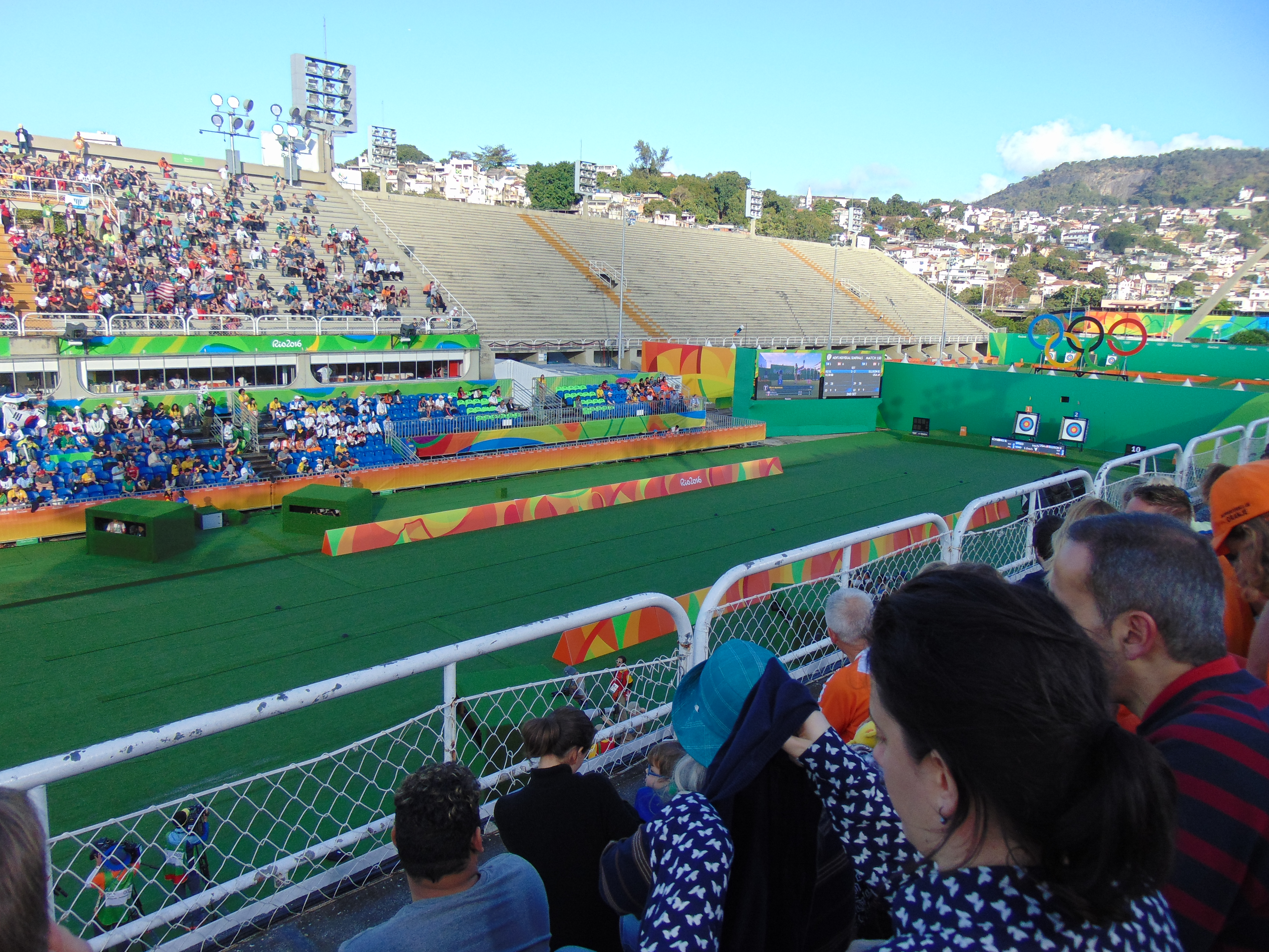 Rio 2016 - Men's archery finals